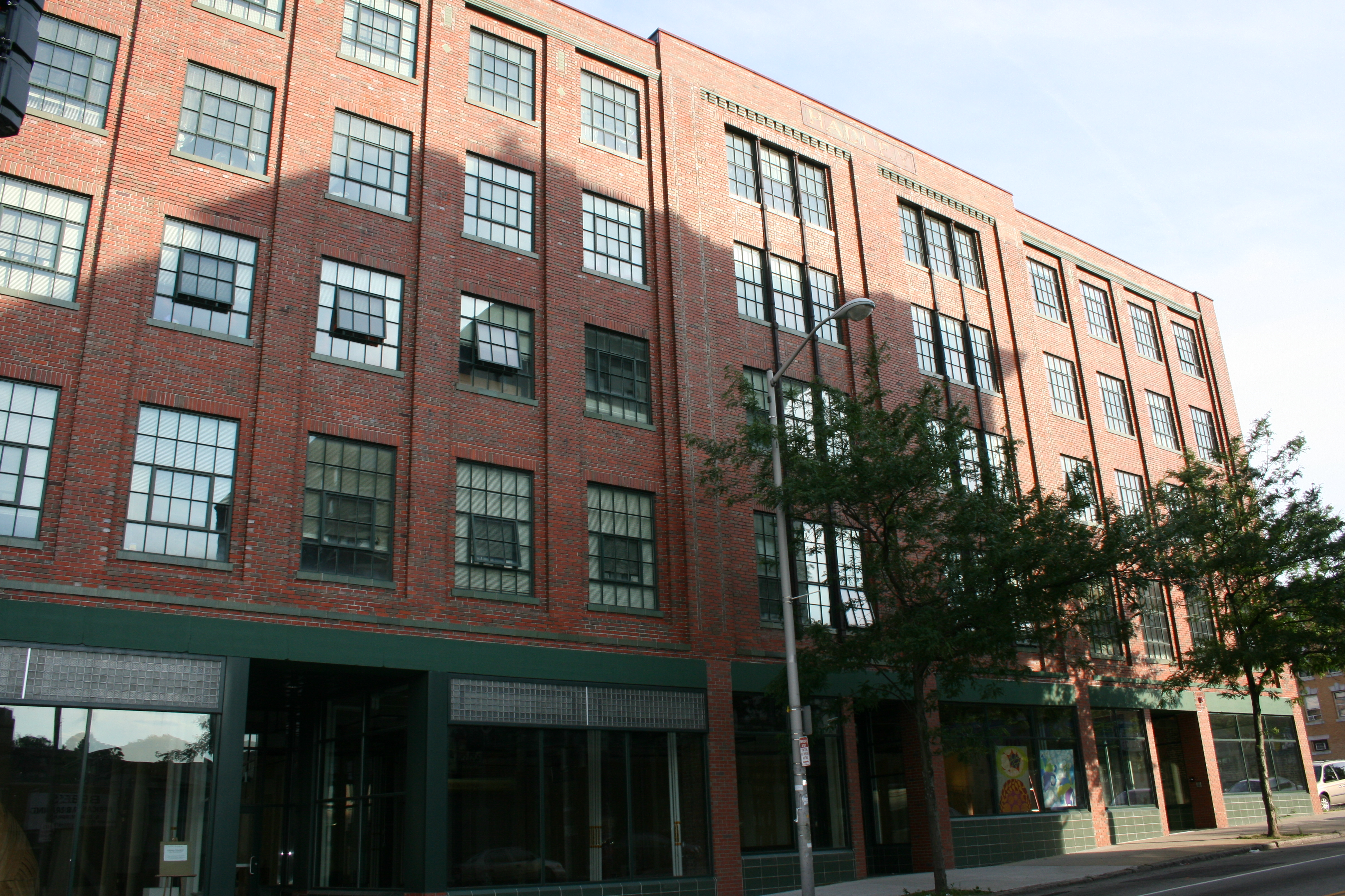 Hadley Furniture Bldg